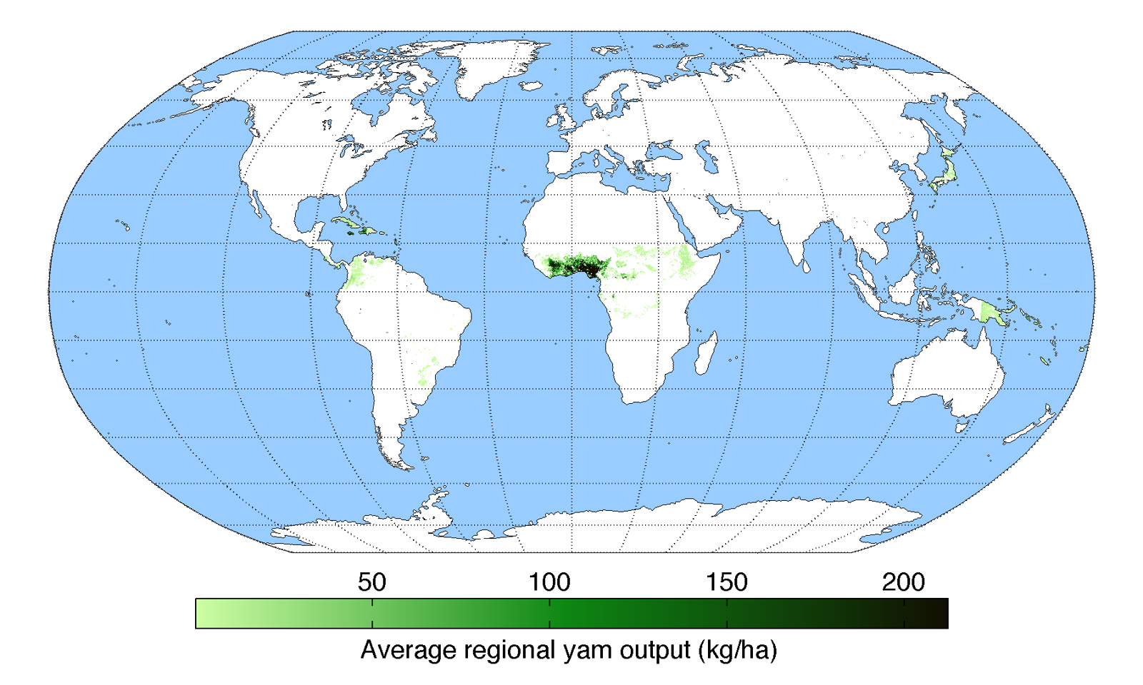 Map of yam production (average percentage of land used for its production times average yield in each grid cell) across the world compiled by the University of Minnesota Institute on the Environment with data from: Monfreda, C., N. Ramankutty, and J.A. Foley. 2008. Farming the planet: 2. Geographic distribution of crop areas, yields, physiological types, and net primary production in the year 2000. Global Biogeochemical Cycles 22: GB1022